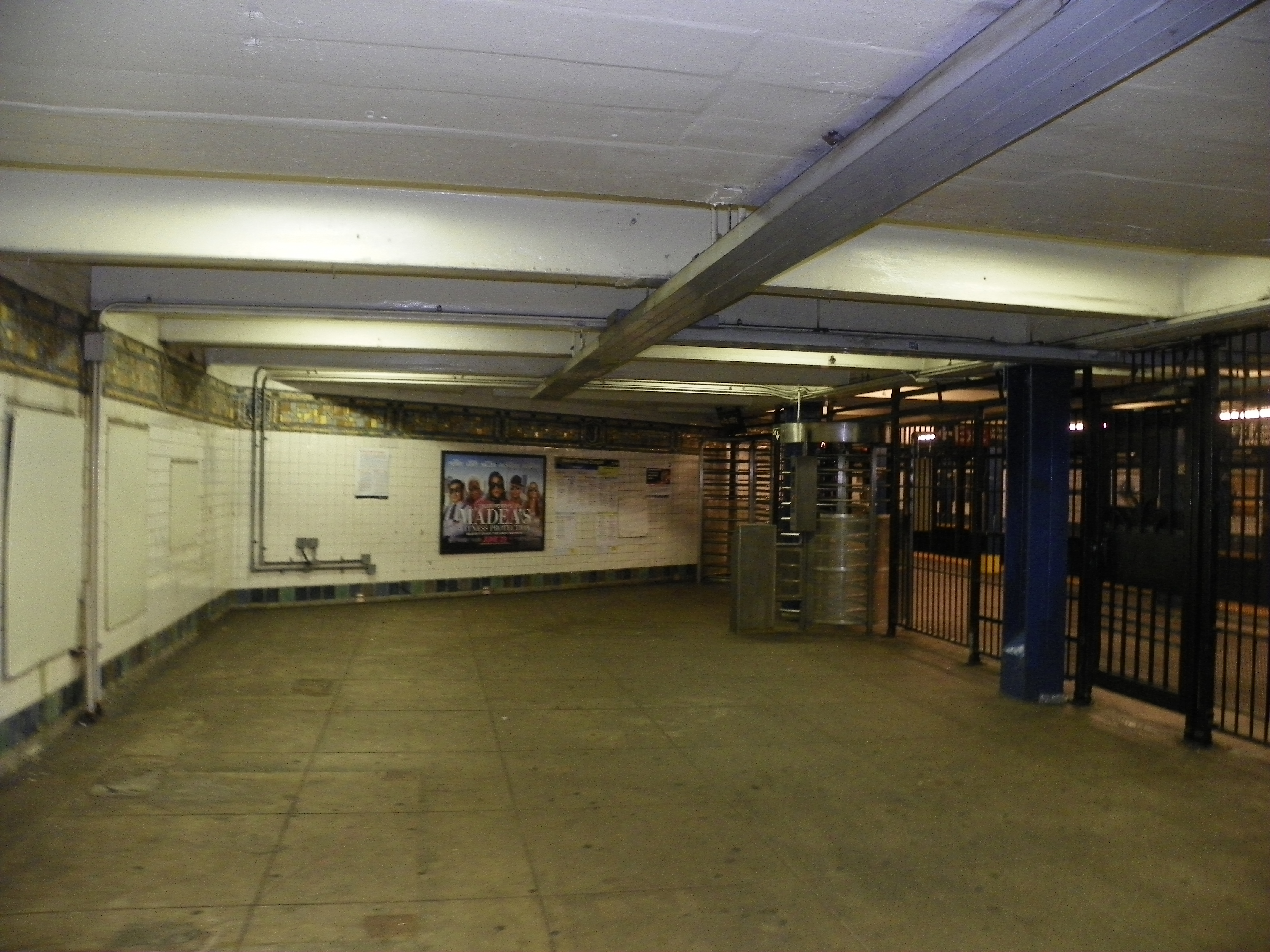 Tunrstiles for the Jefferson Street (BMT Canarsie Line) station in the Bushwick section of Brooklyn.